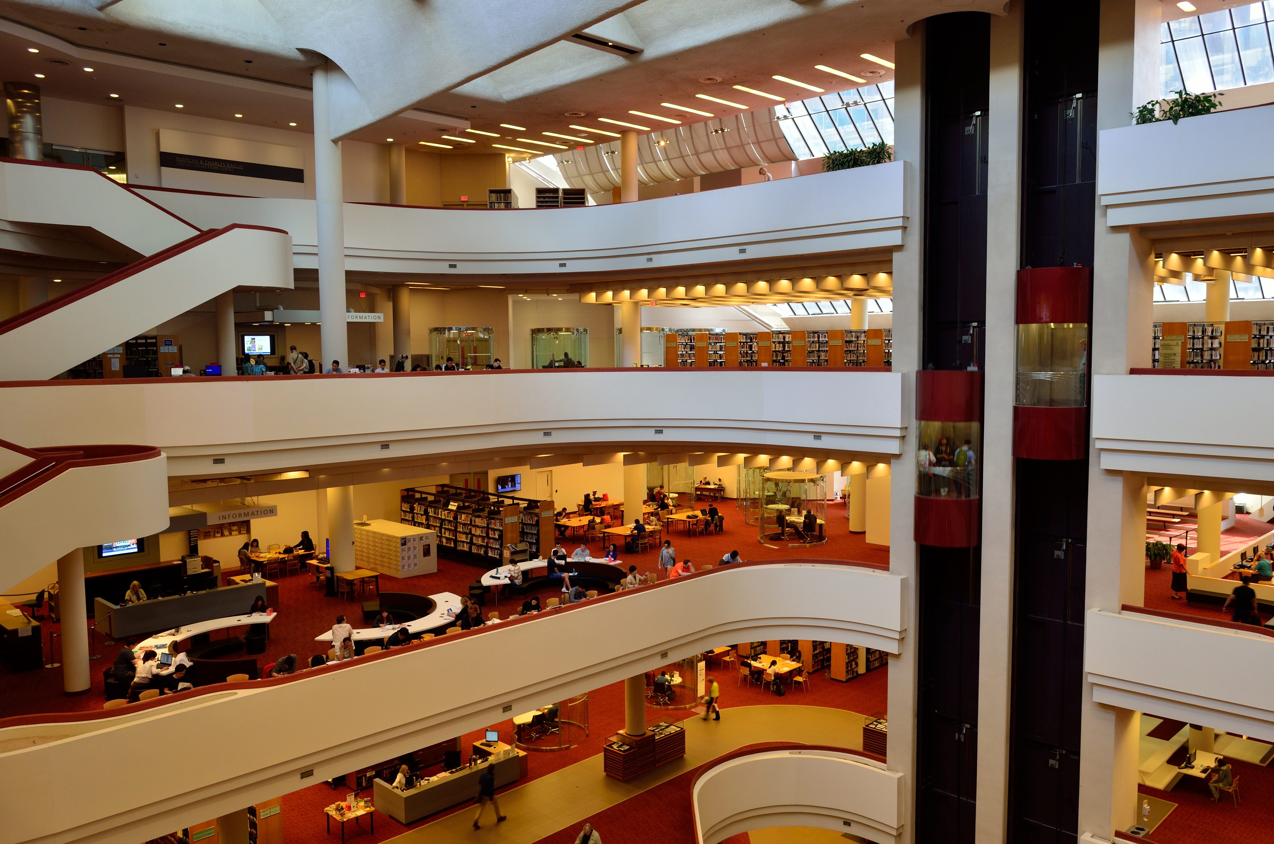 Toronto Reference Library